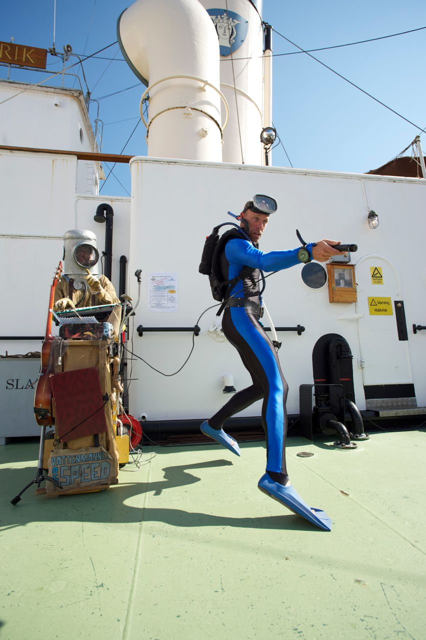 The Swedish duo "Vattenmannen och Speed" performing at the icebreaker S/S Sankt Erik, Stockholm, Sweden.